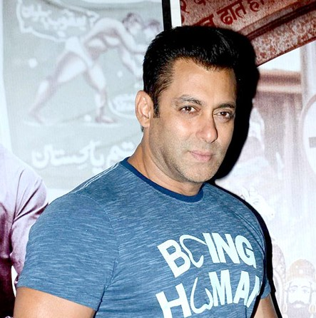 For the promotion of Bajrangi Bhaijan